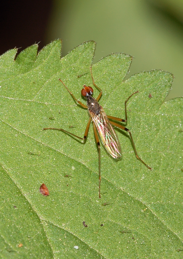 cf. Neria cibaria (det. Stuke, 2006), male, Mörfelden, Germany